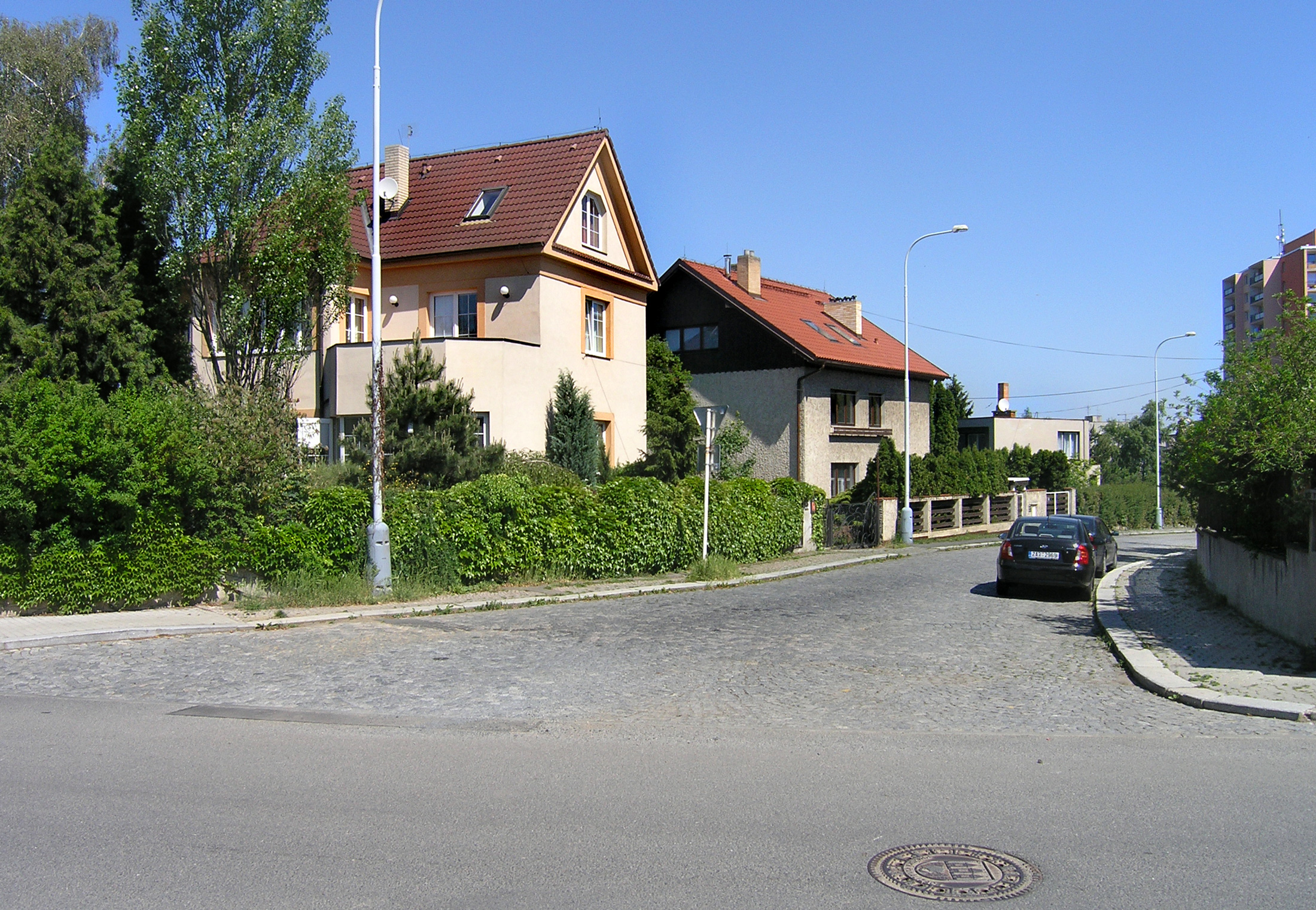 Havlovického street at Hodkovičky, Prague